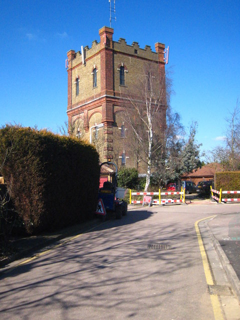 Water tower north of Uxbridge Common Built in 1906 by the Rickmansworth & Uxbridge Valley Water Company to improve the town's water supply, this has now been converted into flats. Its high location also makes it an ideal site for aerials and mobile phone receivers/transmitters.